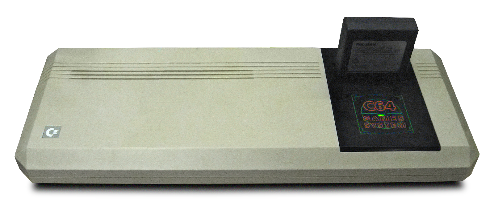 Commodore 64GS (Commodore 64 Games System) with cartridge inserted, against a white background. Heavily modified version of a photo originally taken at Retro Gatering, Stockholm, 27 Sep 2008.